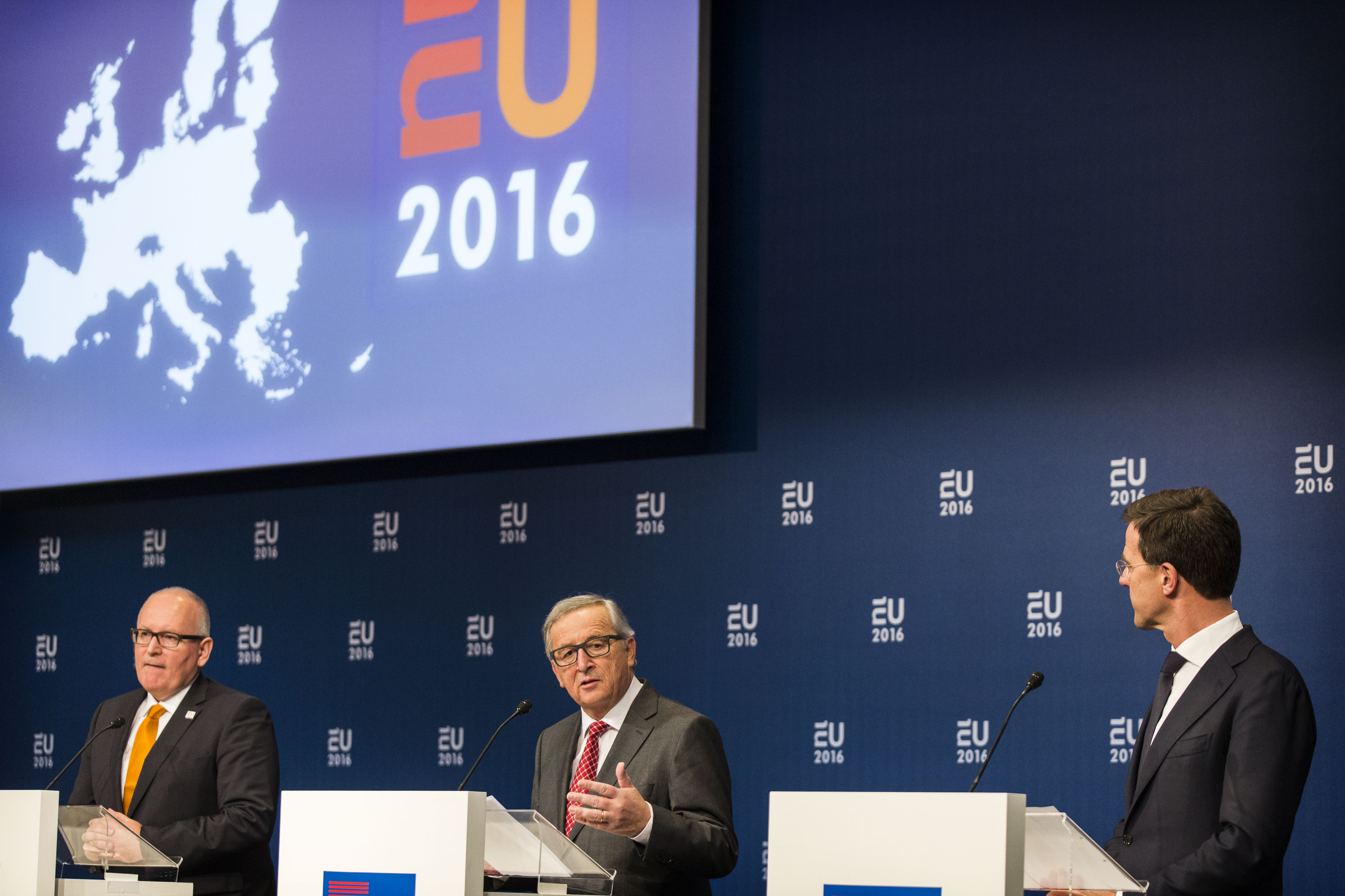 Amsterdam, 7 januari 2016 / Amsterdam, January 7th 2016. Persconferentie premier Mark Rutte, Voorzitter Europese Commissie Jean-Claude Juncker en Frans Timmermans. Press conference of Dutch prime minister Mark Rutte, president of the European Commission Jean-Claude Juncker and Frans Timmermans in Amsterdam. Foto: Rijksoverheid/Valerie Kuypers – Photograph: Dutch Government/Valerie Kuypers